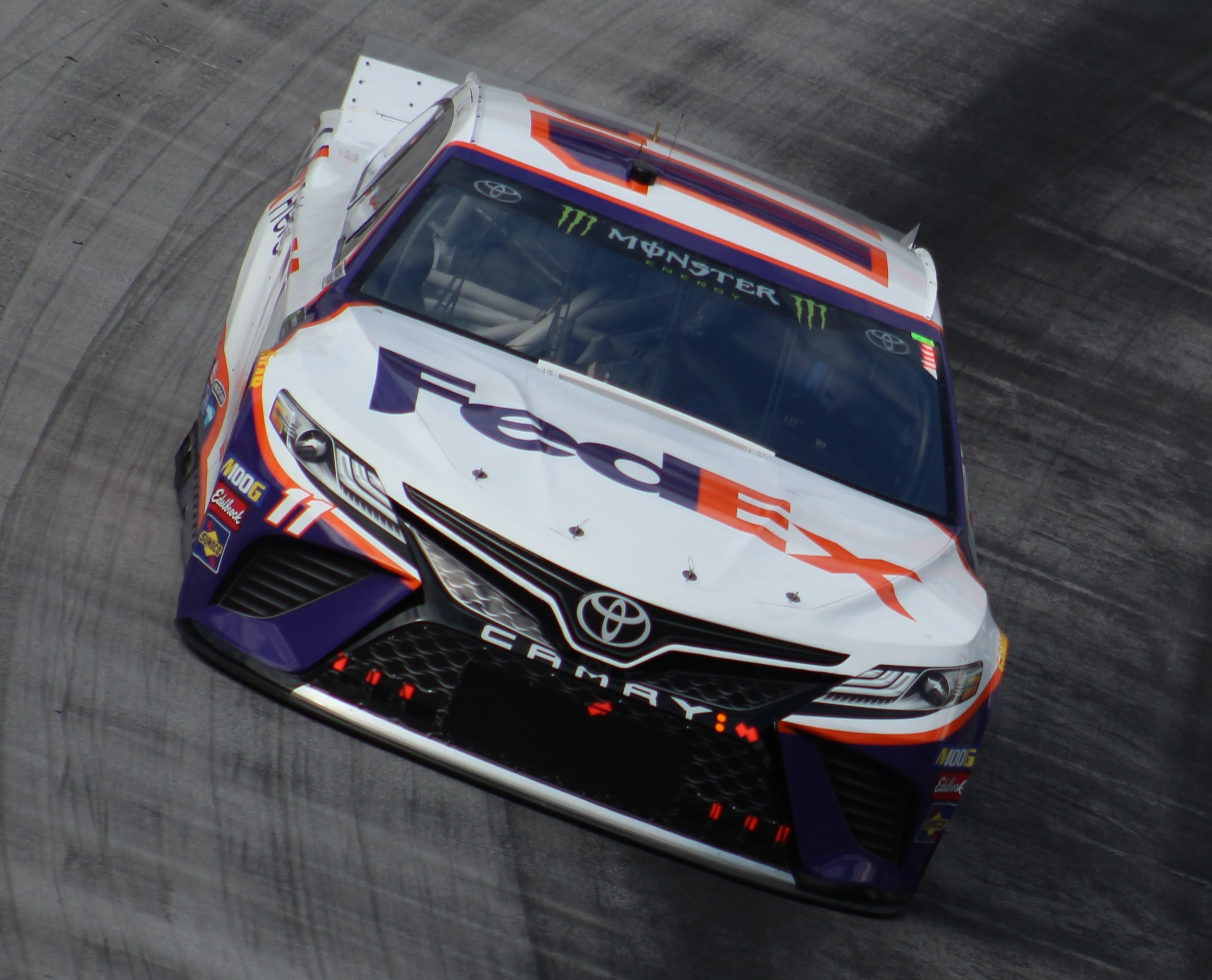 2019 Food City 500